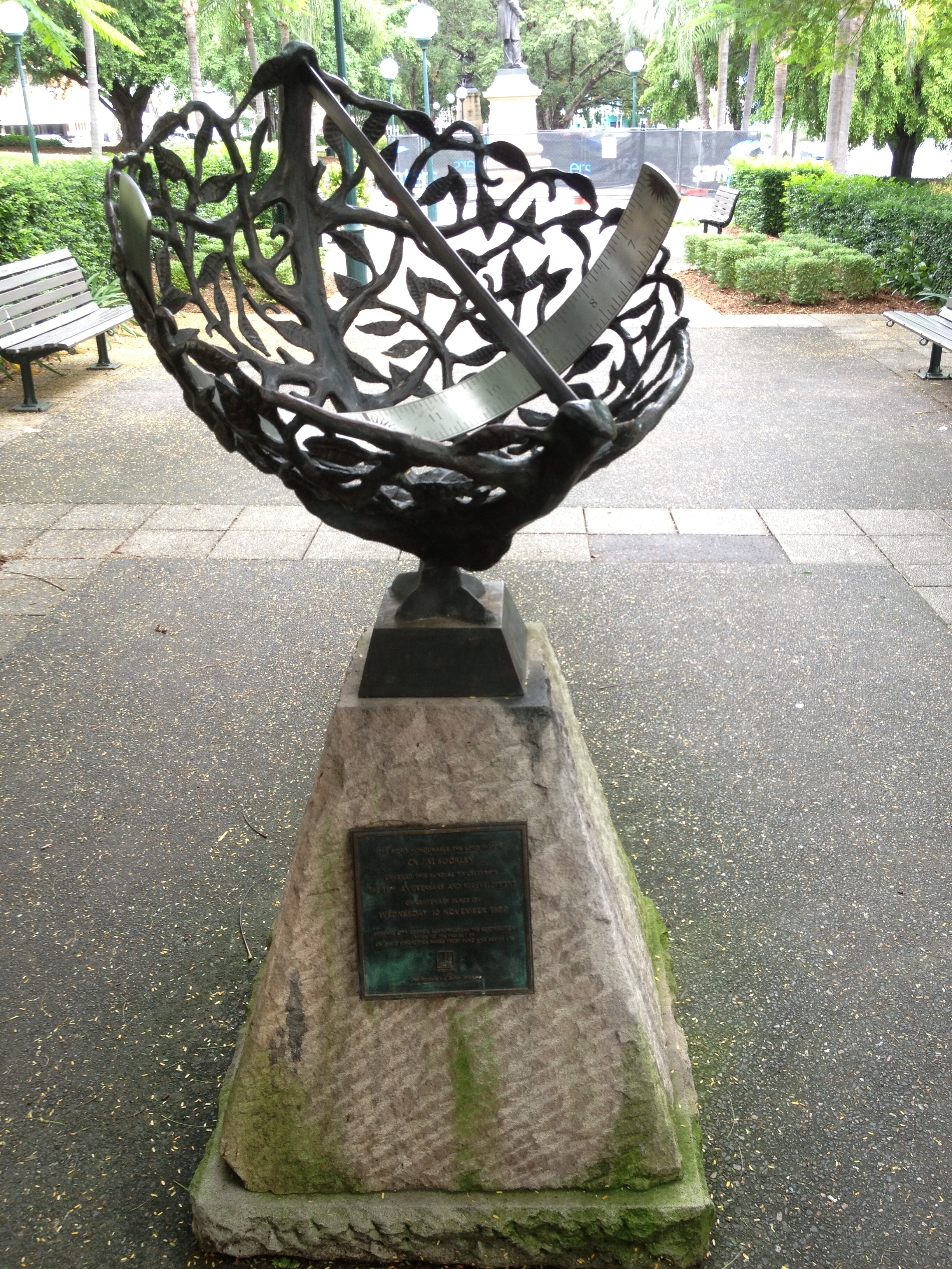 Sundial, Centenary Place, Brisbane